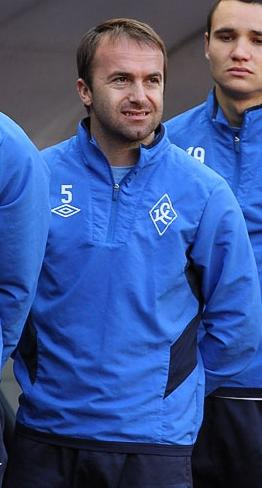 Ognjen Koroman with FC Krylia Sovetov Samara in 2011.